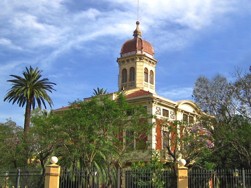 Aiora Mansion, in the city of Valencia